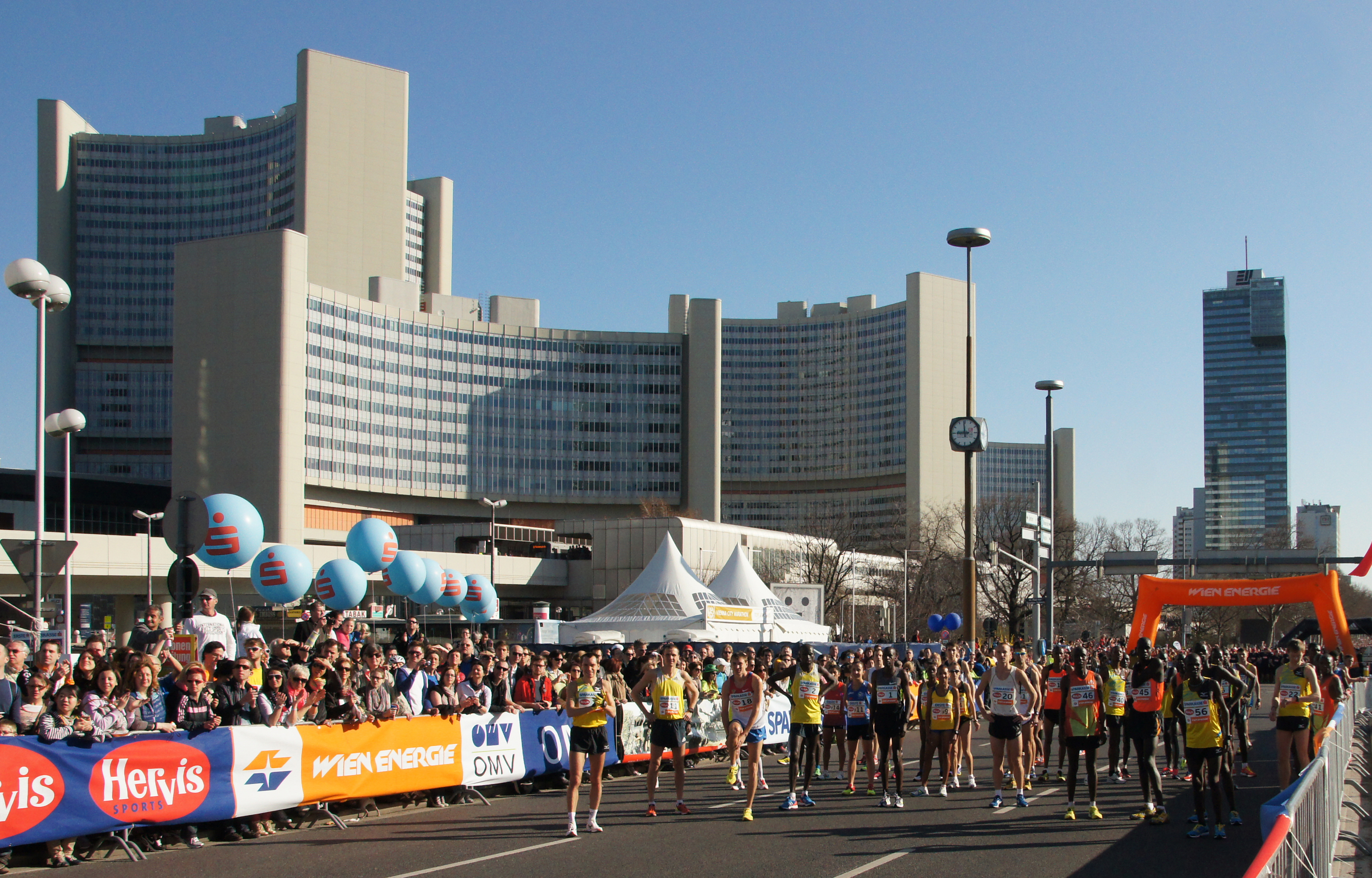 Vienna 2013-04-14 Vienna City Marathon - top athletes approaching starting line